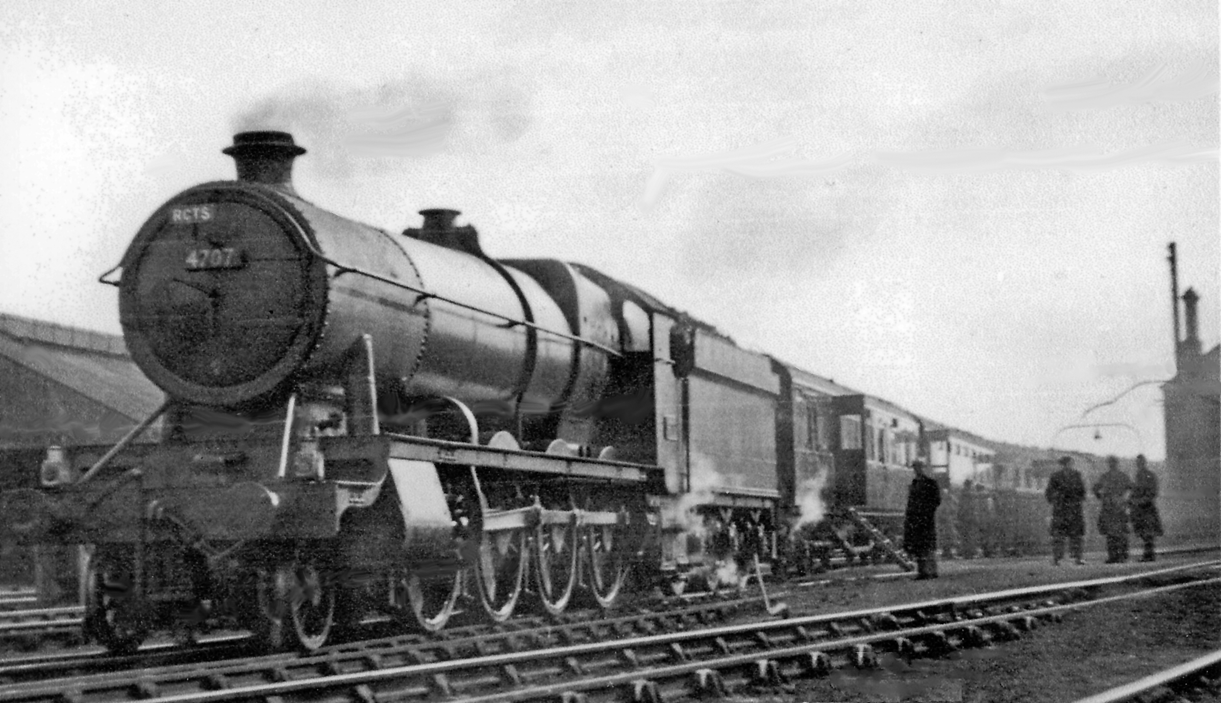 RCTS Rail Tour at Swindon Works about to return to London (Victoria). See TQ2878 : RCTS Rail Tour to Swindon at Victoria: for the return journey Churchward '4700' class 2-8-0 No. 4707 (built 4/23, withdrawn 5/64 - the last of the class of nine) worked the train back as far as Reading, where it was handed over to the SR.